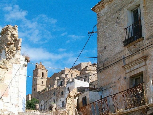 Craco, july 2005 picture taken by user:Idéfix